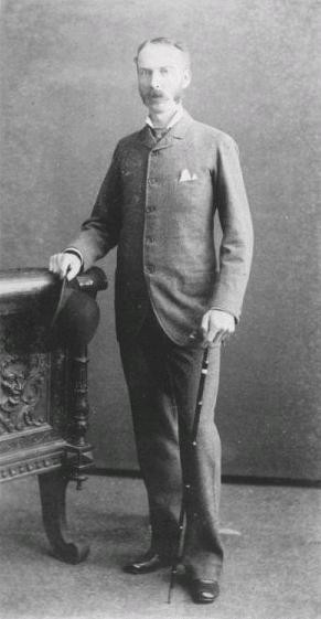 Joseph Whitaker (ornithologist) image from en:1880.